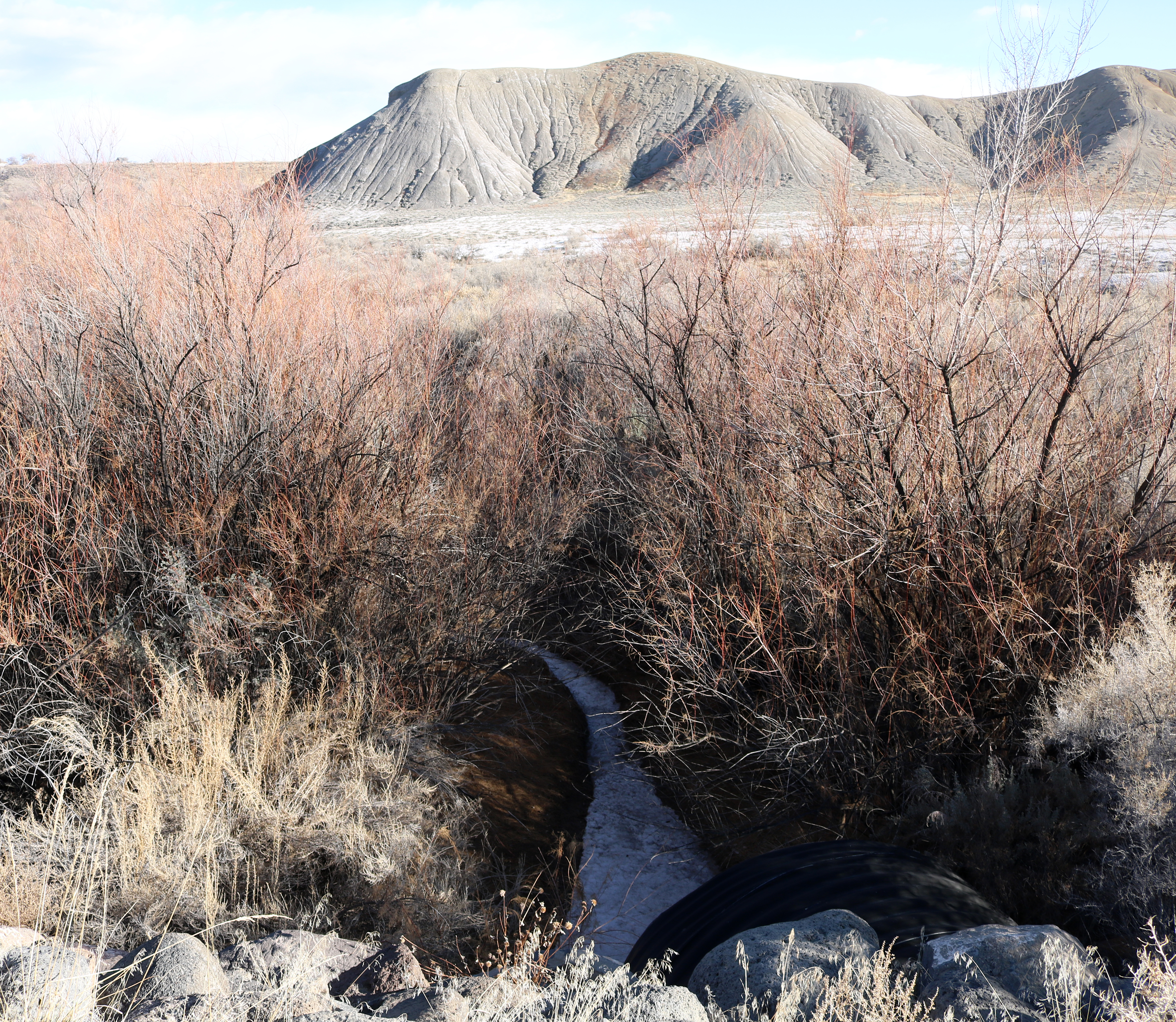 Negro Creek in Delta County, Colorado. The picture was taken from Trap Club Road just south of the road's intersection with Doughspoon Road. Negro Creek empties into Tongue Creek just to the left of the hill in the distance in the picture. The creek was frozen at the time the picture was taken.